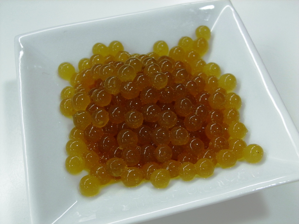 Spherification of green tea